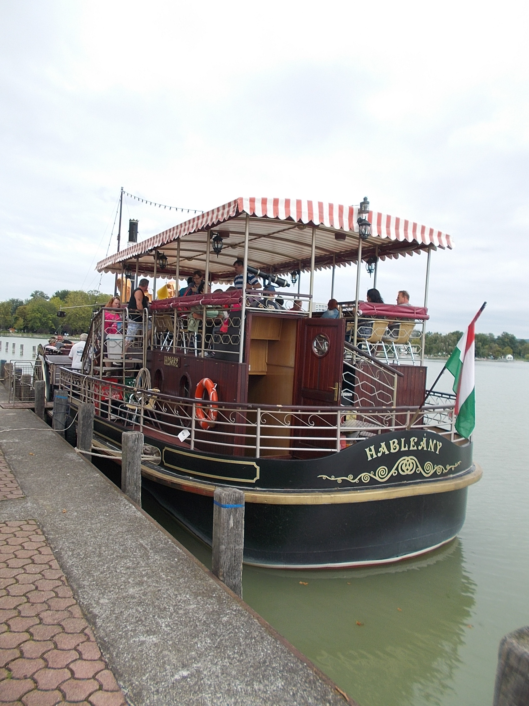 Hableány (ship, 2000) in Port of Keszthely, Zala County, Hungary.